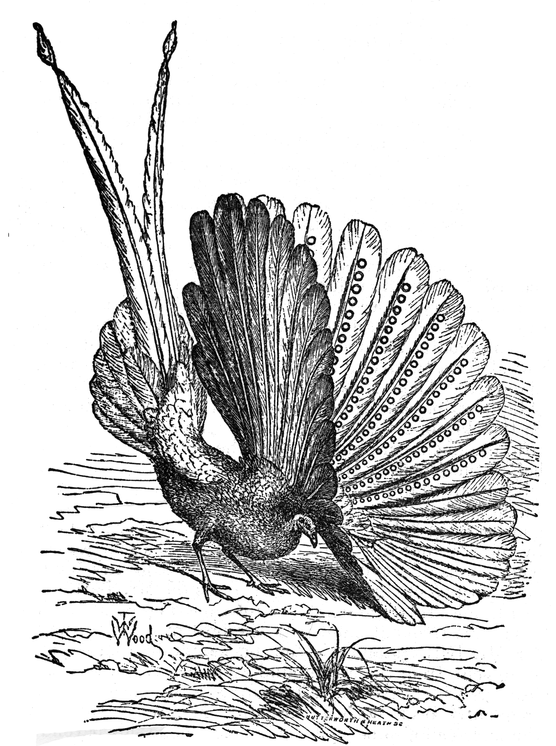 Scan of Figure 52, from Darwin's Descent of Man, second edition.